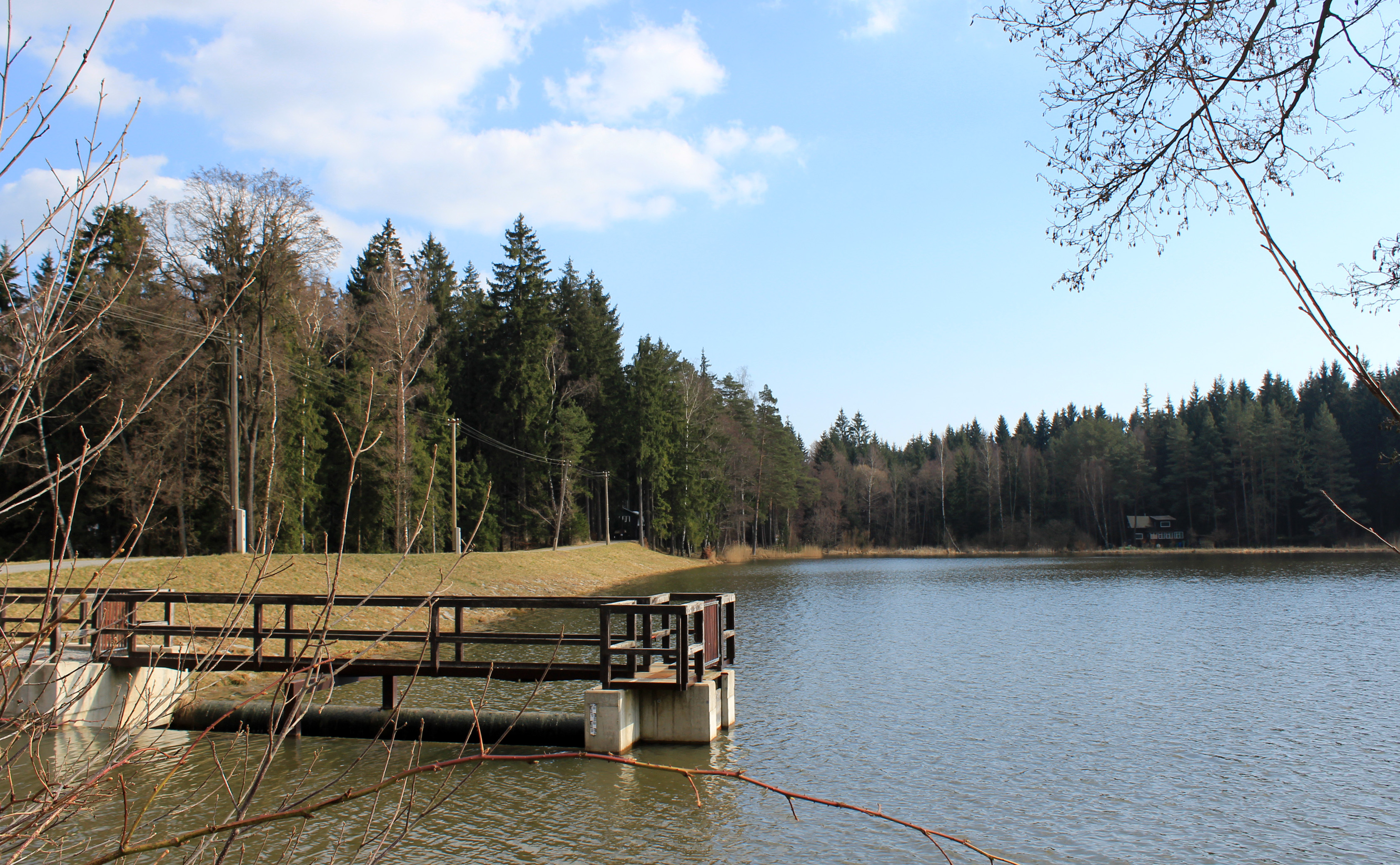 Januš pond in Jasné Pole between Všeradov and Ždírec nad Doubravou, Czech Republic.